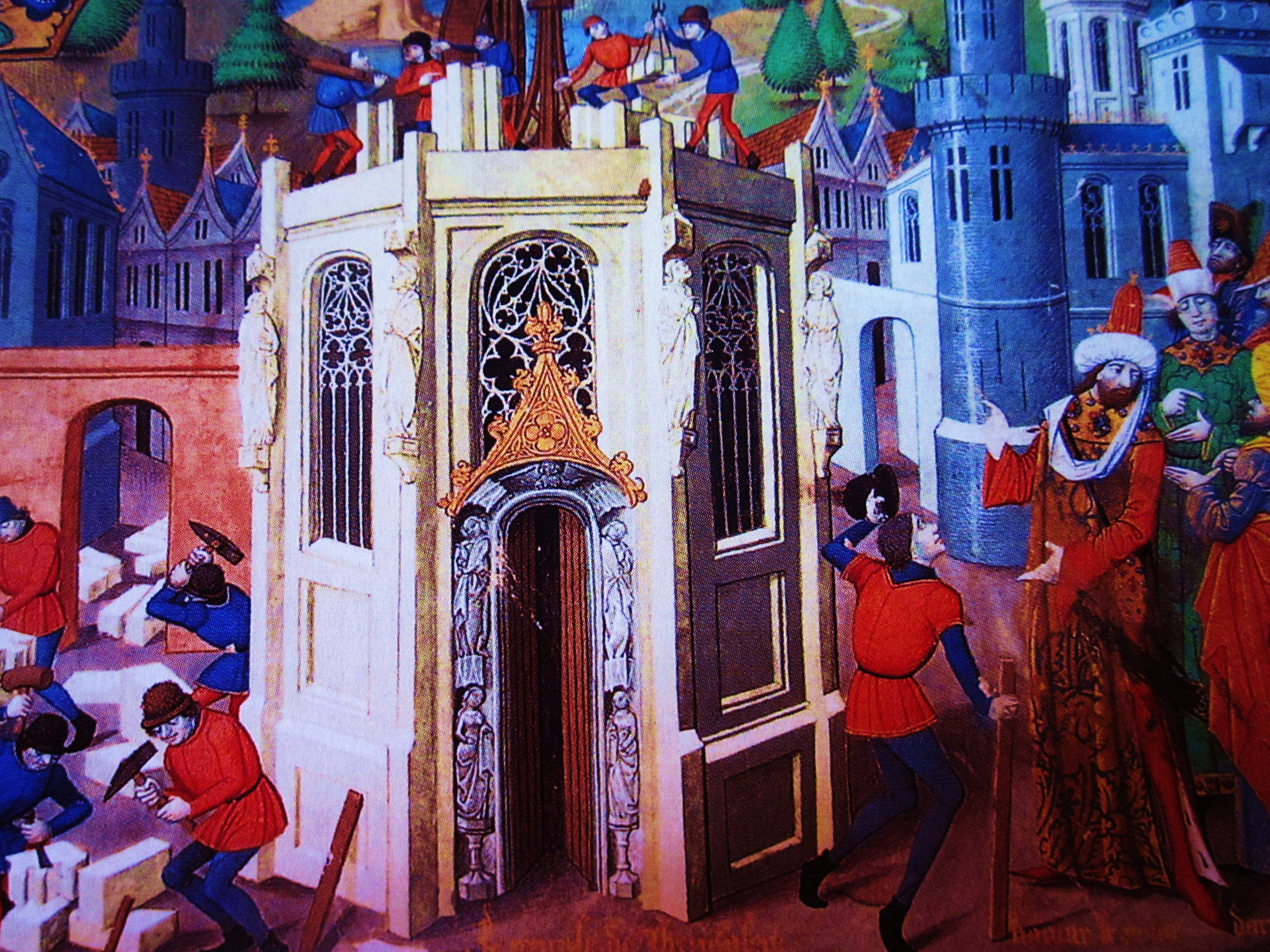 An illumination showing Umar building the Mosque in Jerusalem